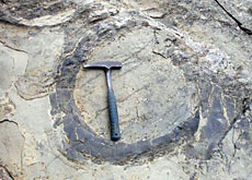 Footprint of dinosaur (Sauropoda) on Tinzenhorn (Tinizong/Savognin/Filisur, Grisons, Switzerland)